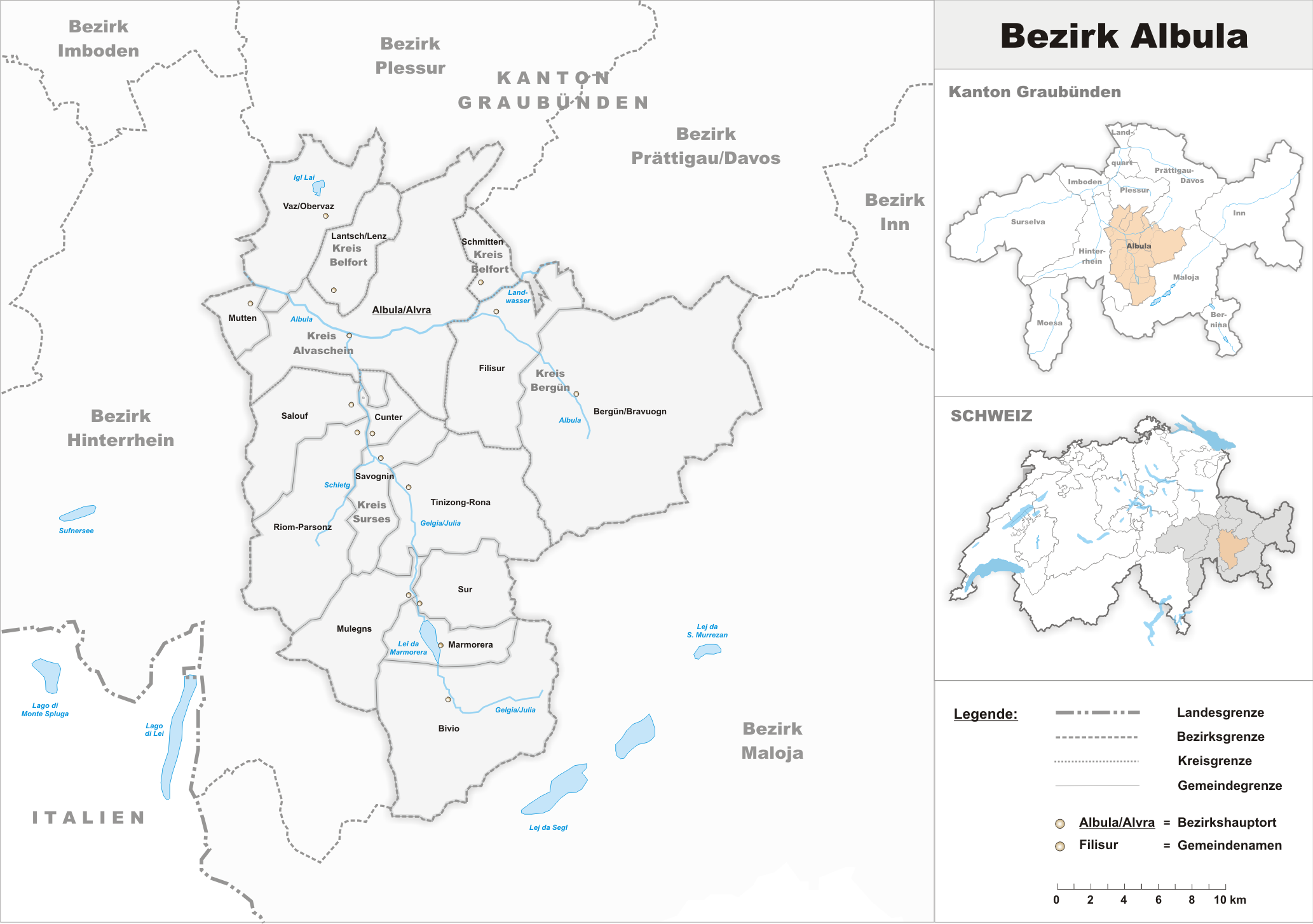 Municipalities in the district of Albula